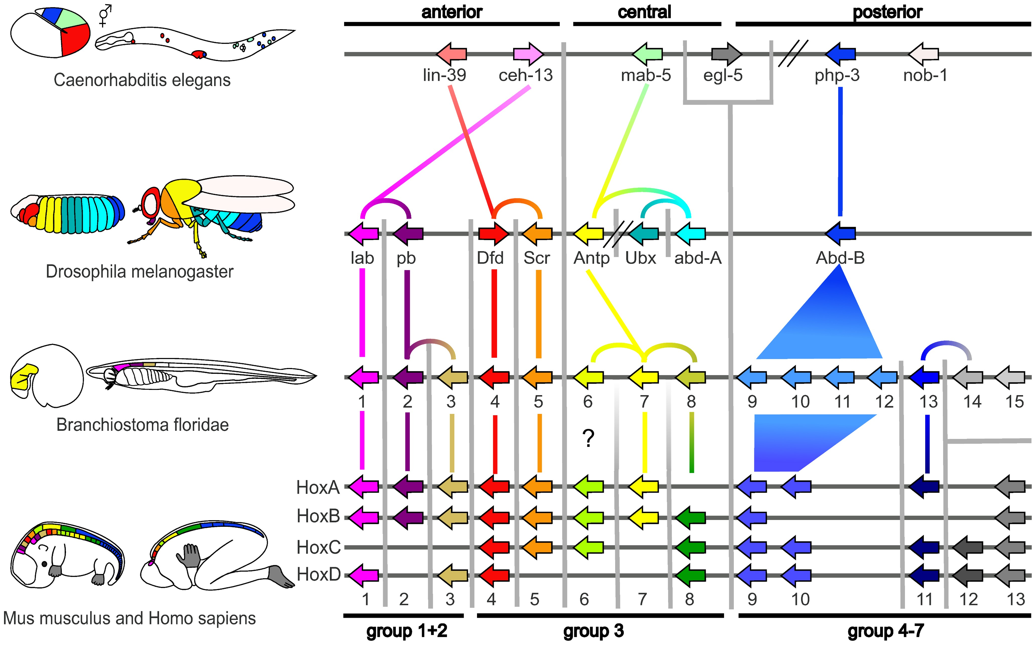 Hox protein classification across model organisms by CLANS analysis, Hueber et al.